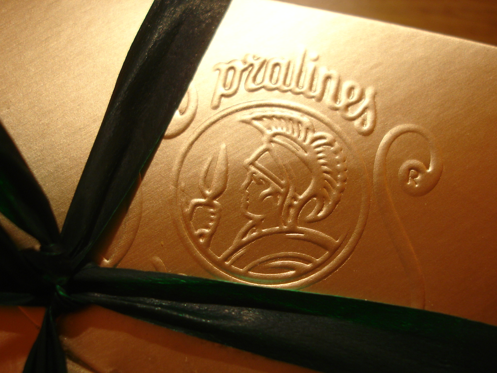 The image of an effigy of Leonidas I as pictured on Leonidas chocolate boxes